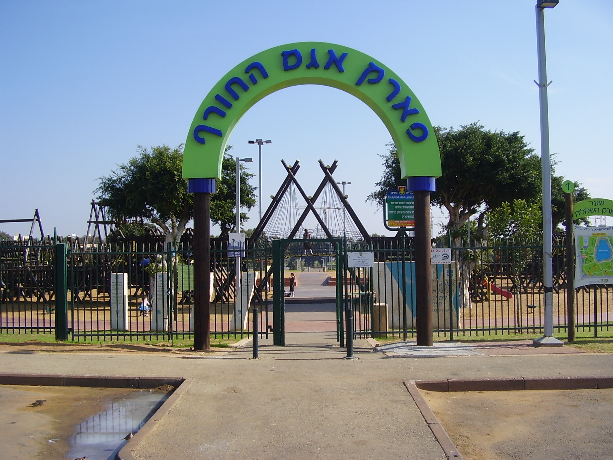 Winter Puddle Park in Netanya